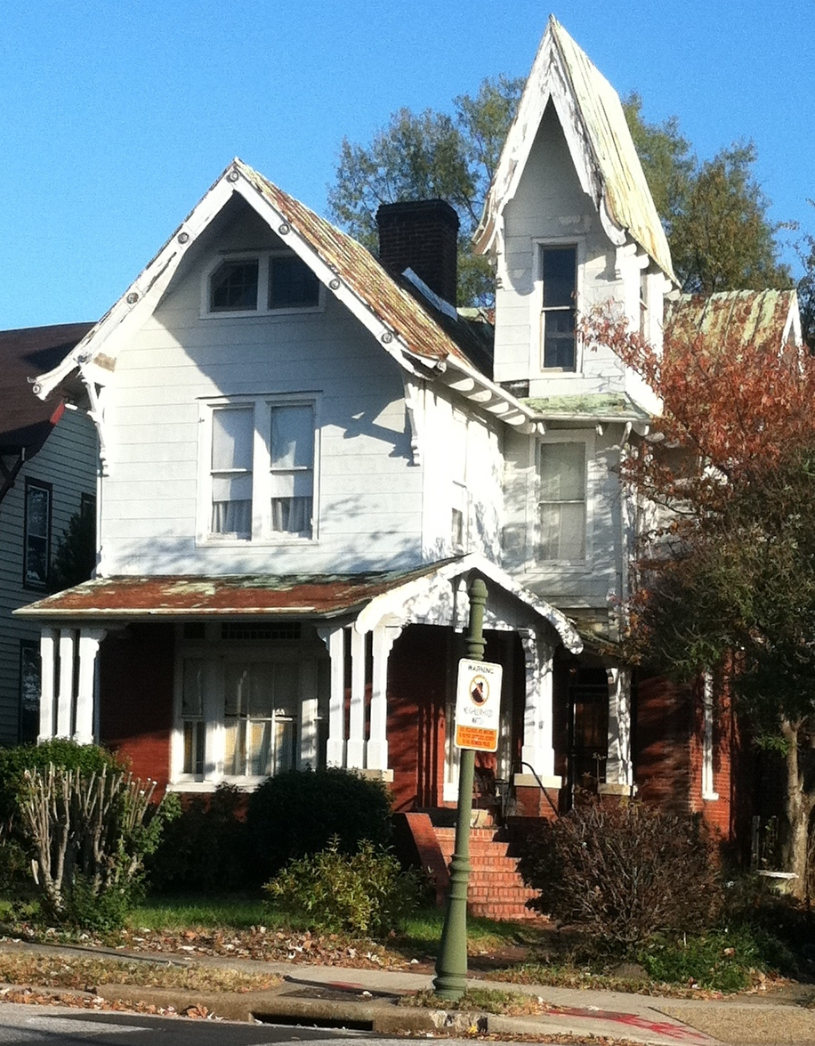 House at corner of 4th Avenue and Trigg Street in the Chestnut Hill/Plateau historic district in Richmond, VA.